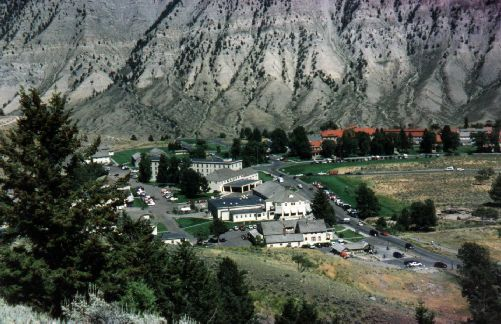 Mammoth Hot Springs, Yellowstone Nationalpark, Wyoming, USA